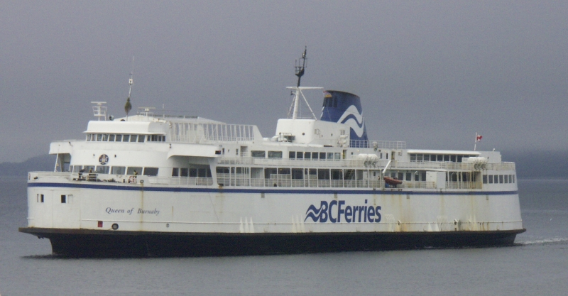 BC Ferries Queen of Burnaby.